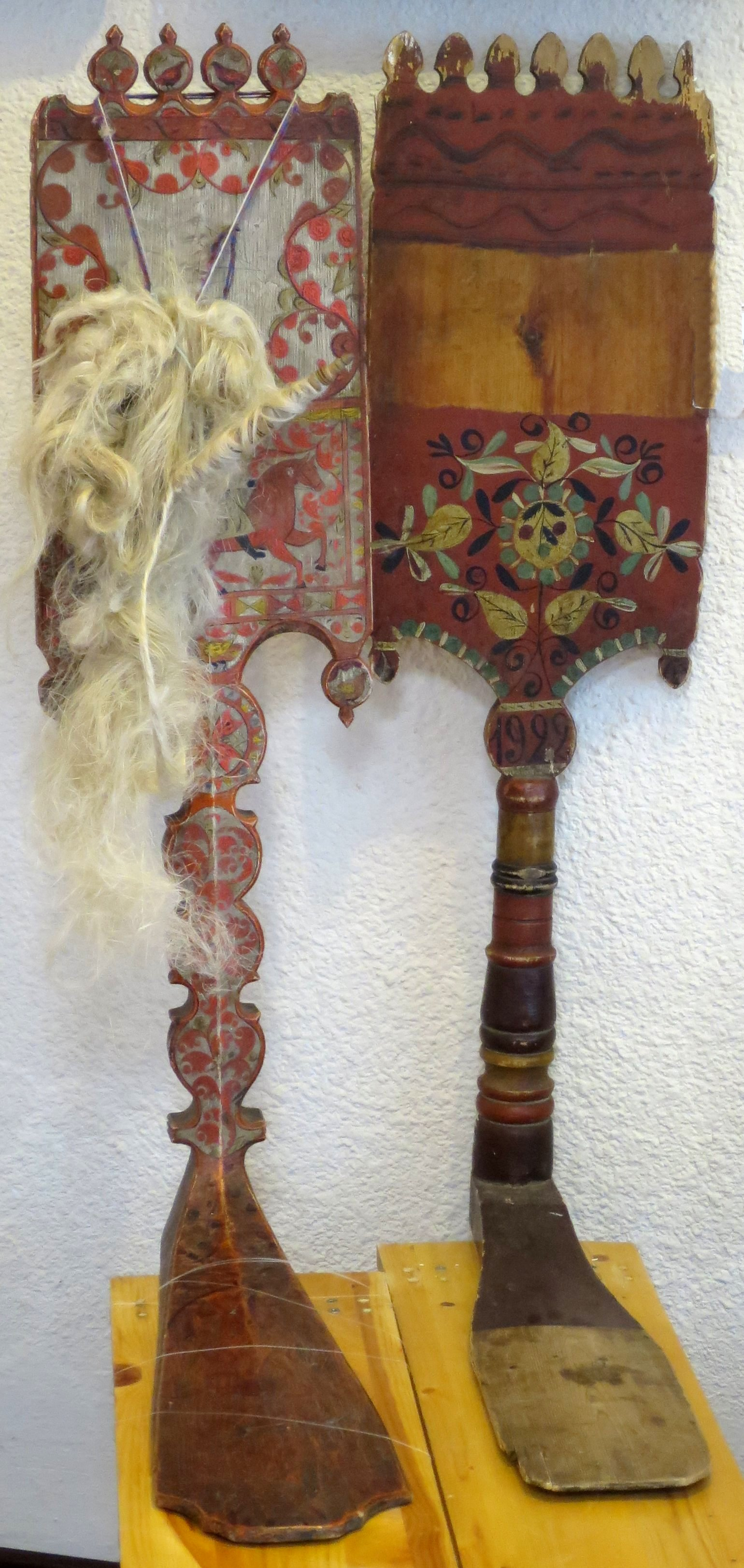 Russian distaffs, late 19th century, Arkhangelsk Regional Museum of Fine Arts